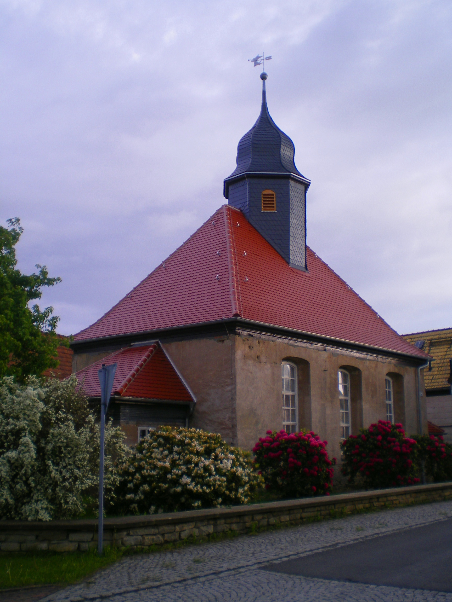 Church in Wildenbörten near Gera/Thuringia